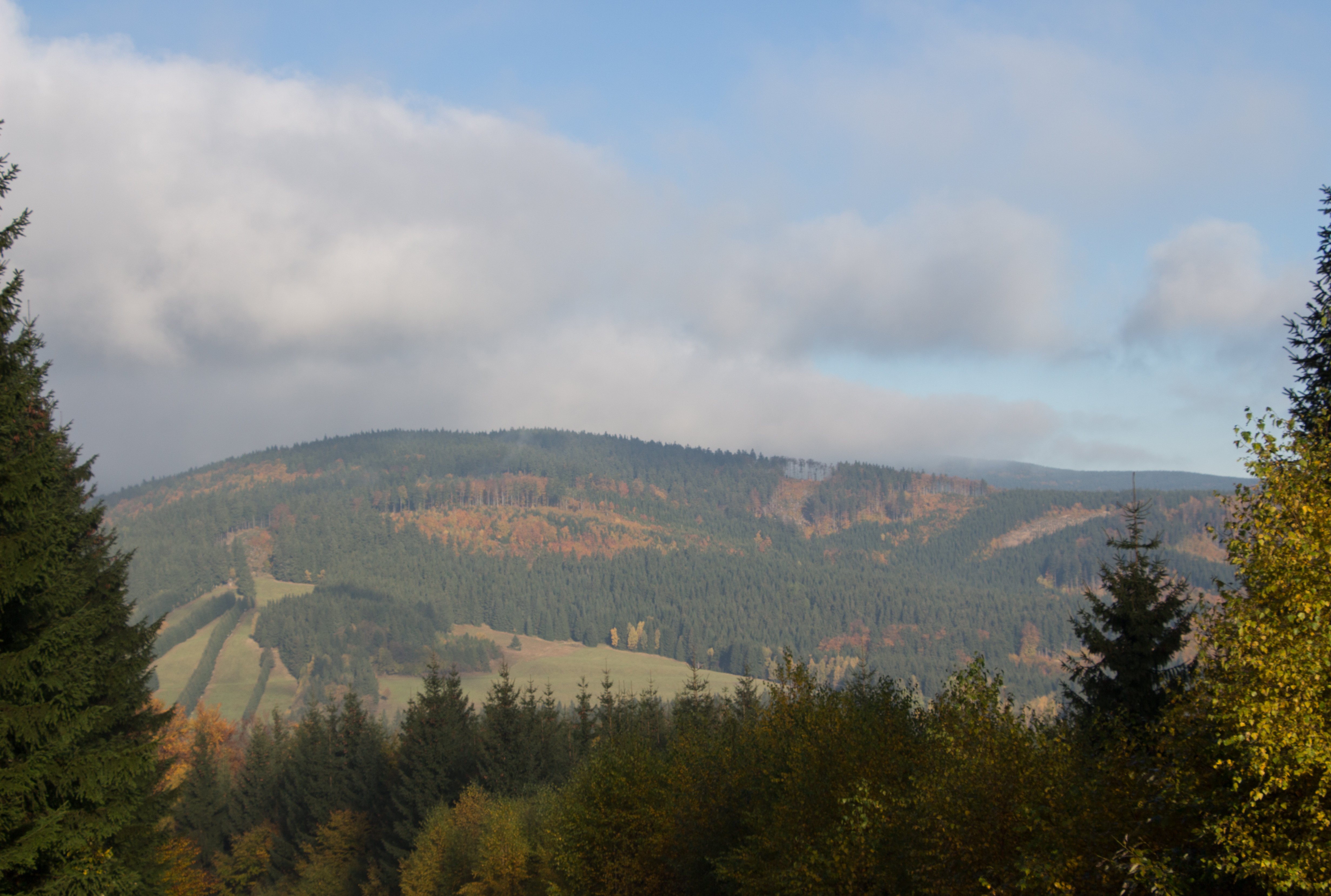 Ramzova valley. Jeseníky, Czech Republic